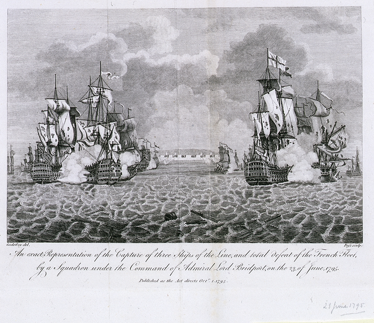 "An exact Representation of the Capture of three Ships of the Line, and total defeat of the French Fleet, by a Squadron under Command of Admiral Lord Bridport, on the 23 of June, 1795 (PAD5494)" From National Maritime Museum